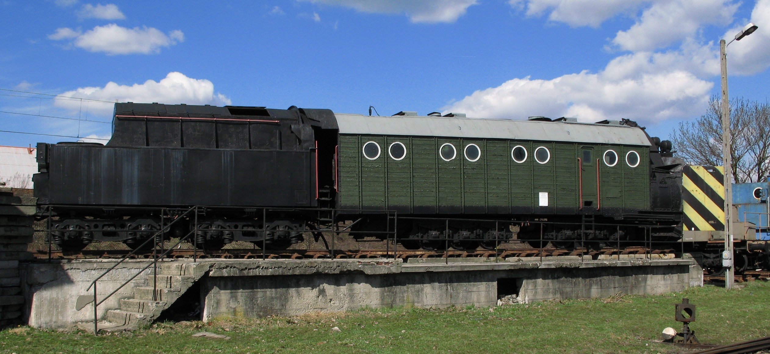 Henschel rotary snowplow in Chabówka railway museum, Poland - side view